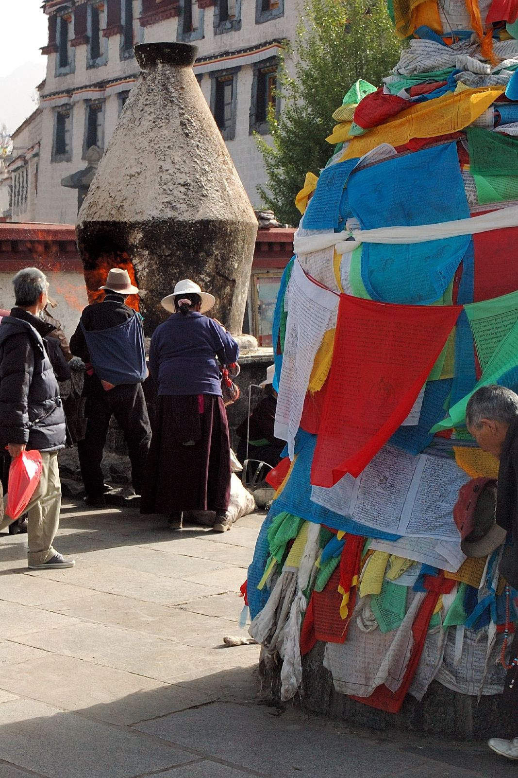 Square near Jokhang Temple in Lhasa, Tibet